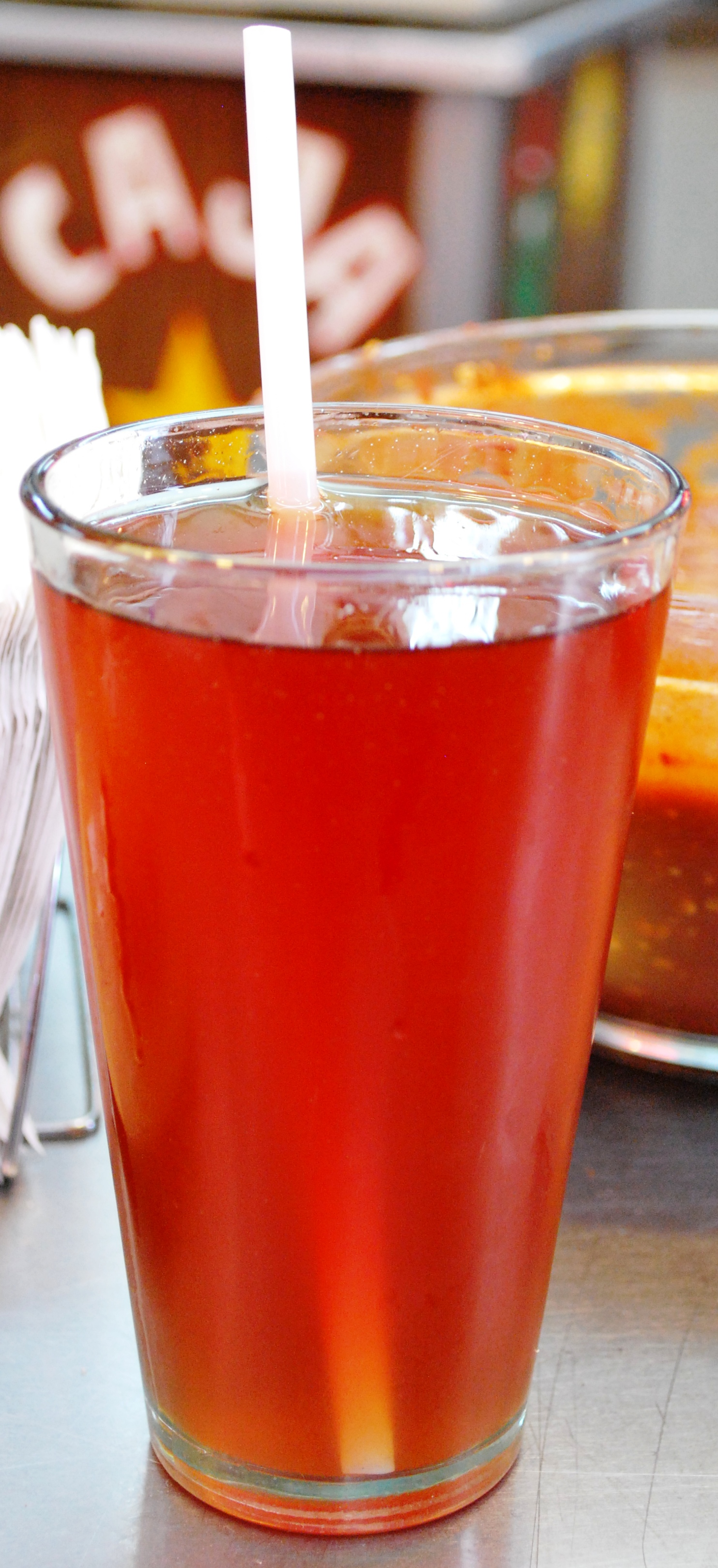 Glass with tepache (fermented pineapple drink) served at a taco stand in the Tacubaya neighborhood in Mexico City